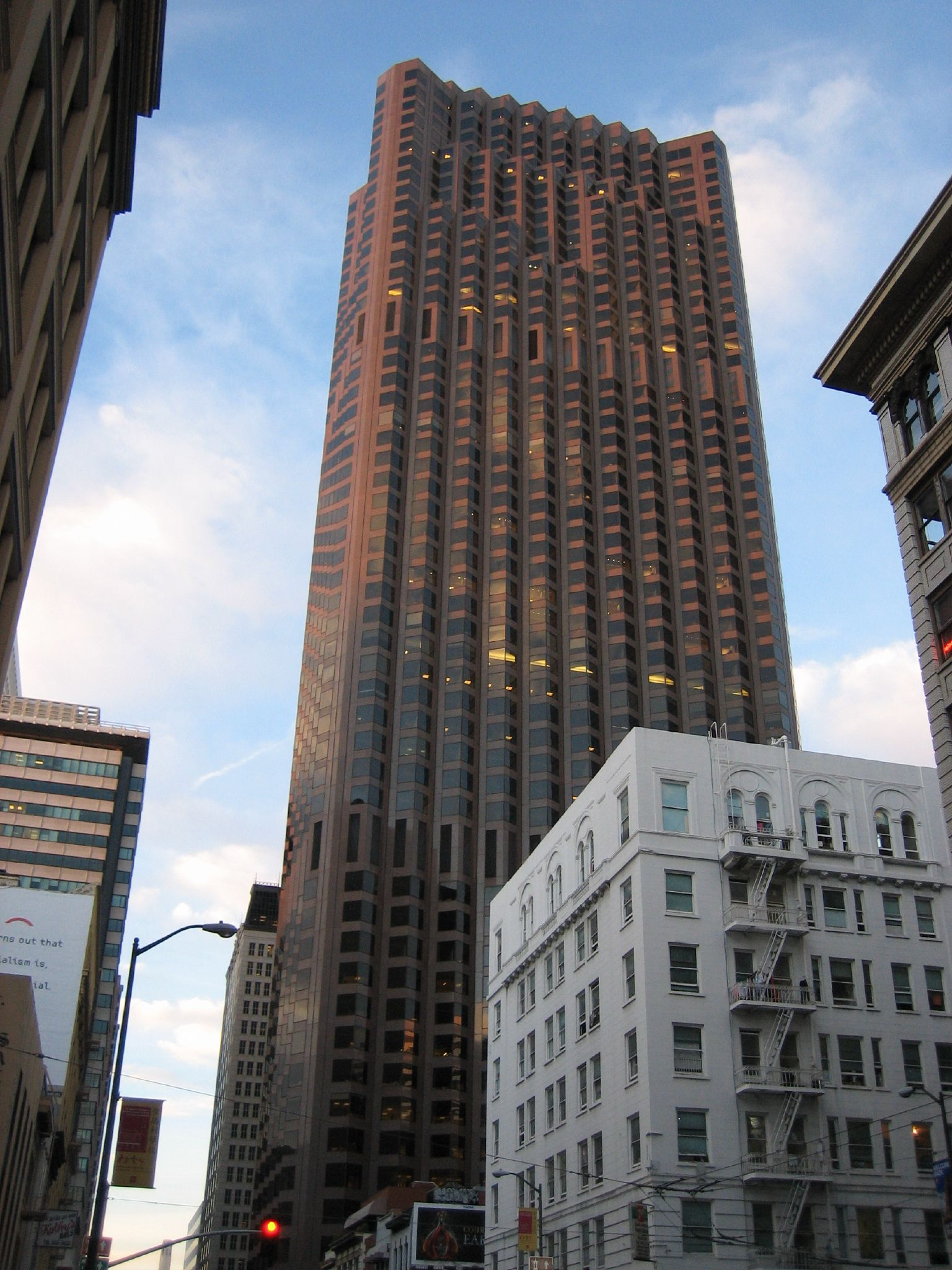 555 California Street (Bank of America Tower), a skyscraper in San Francisco, California